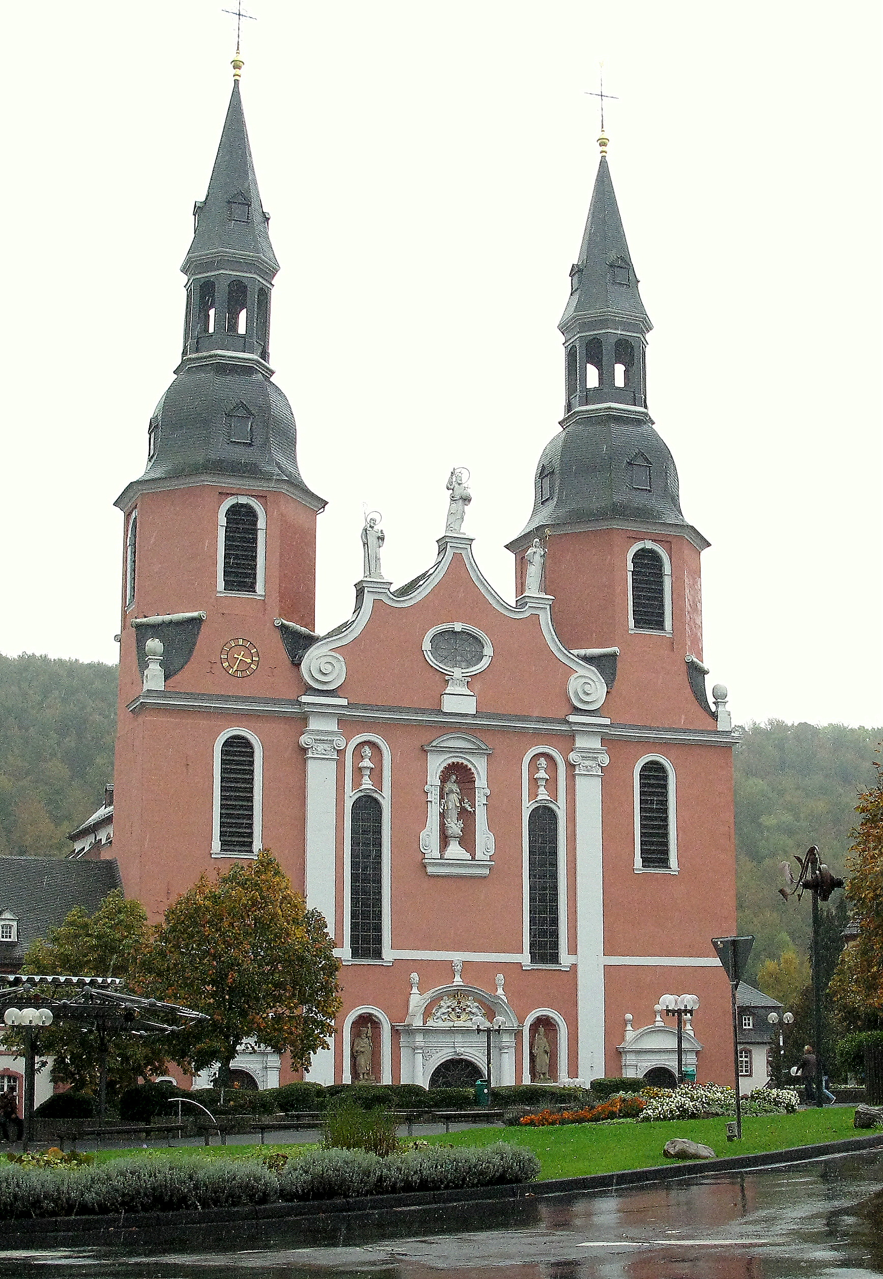 Basilica of the Transfiguration of Our Lord, PrümLëtzebuergesch: Prümer Abteikierch